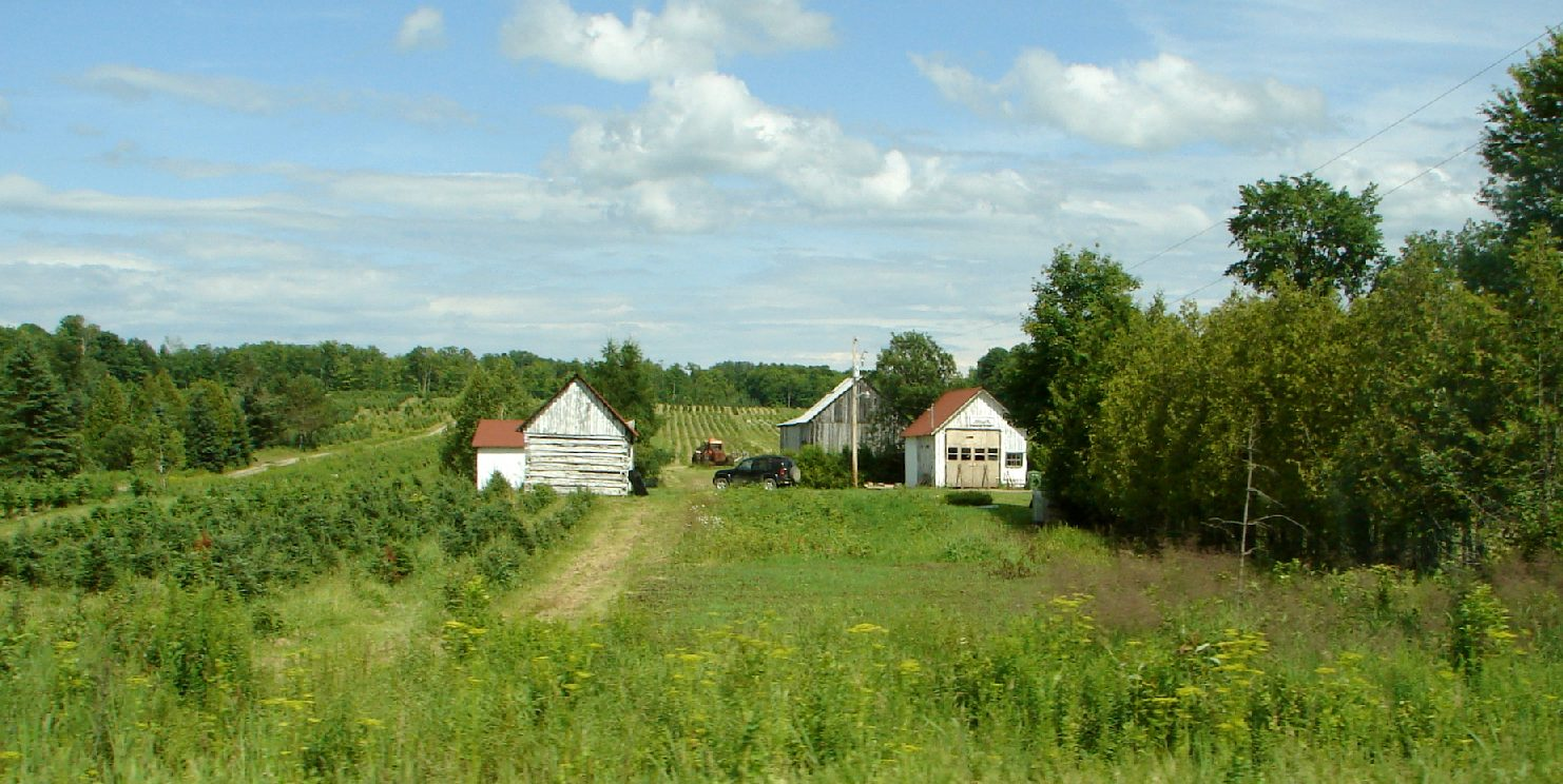 Bois-Franc, Outaouais, Quebec, Canada